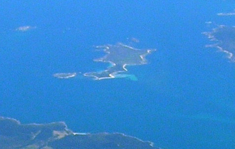 Aerial view of Preservation Island Tasmania Australia from south east